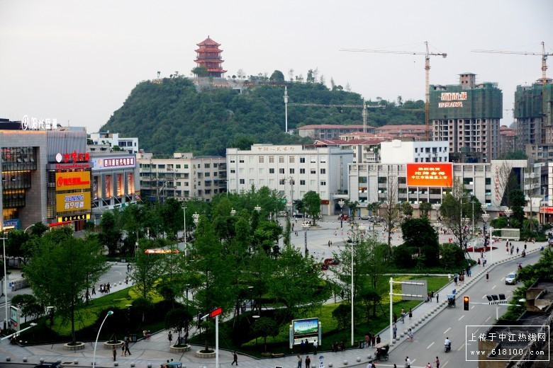 Zhongjiang Park